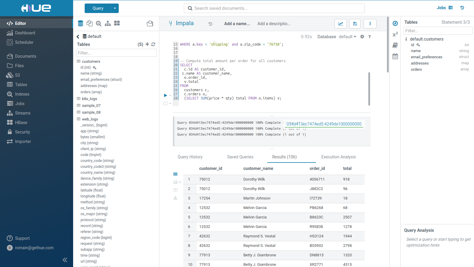 Screenshot of Hue 4.6